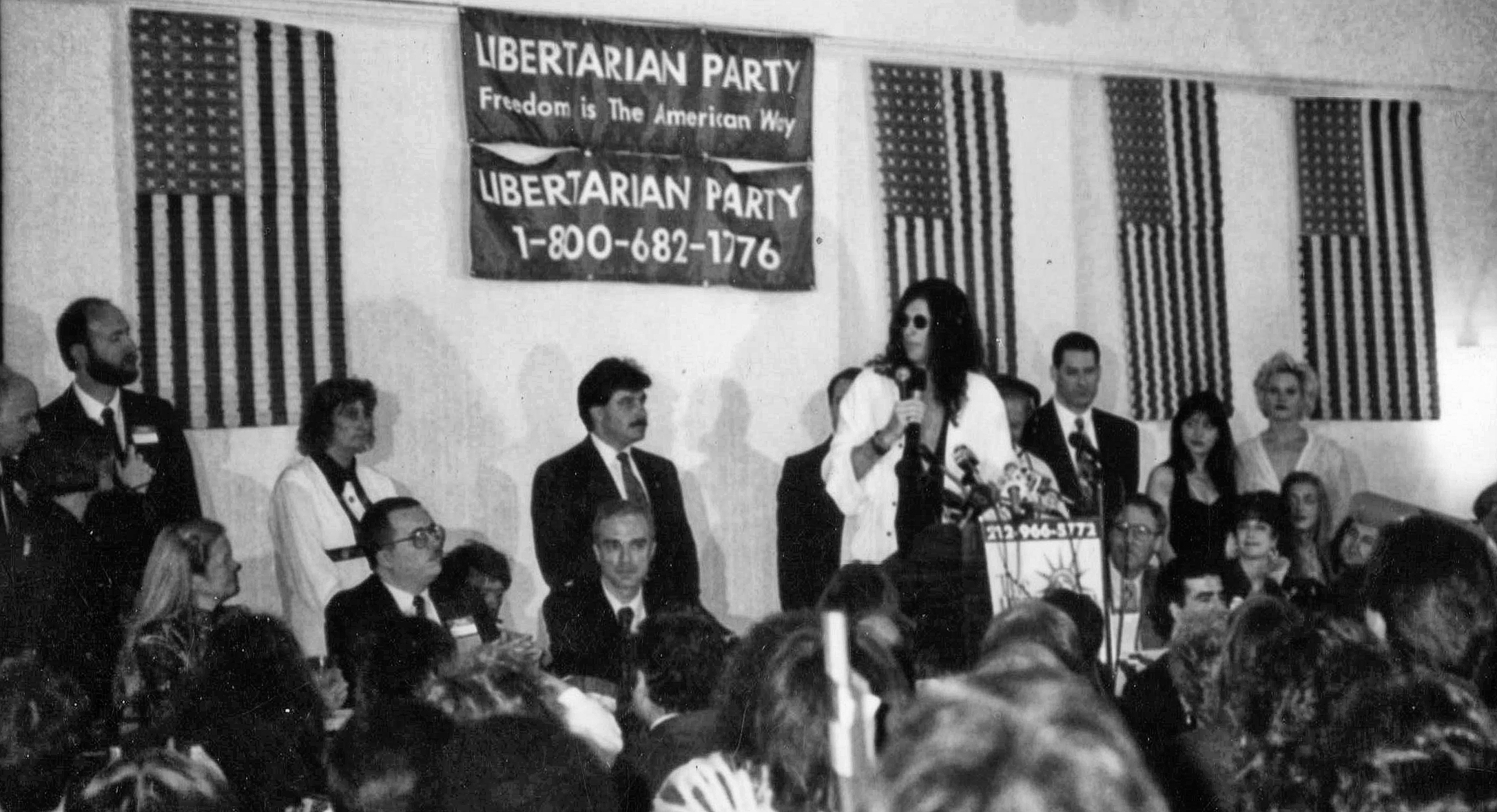 Stern at the Libertarian Party convention where he was endorsed as a candidate for Governor for New York at the Italian Convention Center in Albany, New York on Saturday 23 April 1994.